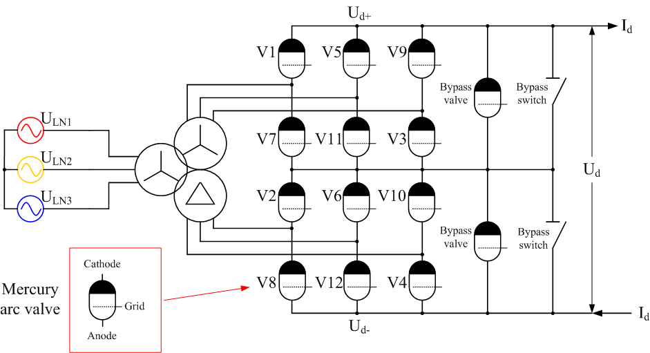 Schematic representation of a typical 12-pulse HVDC converter using mercury arc valves, with bypass valves and bypass switches across each of the two six-pulse bridges.